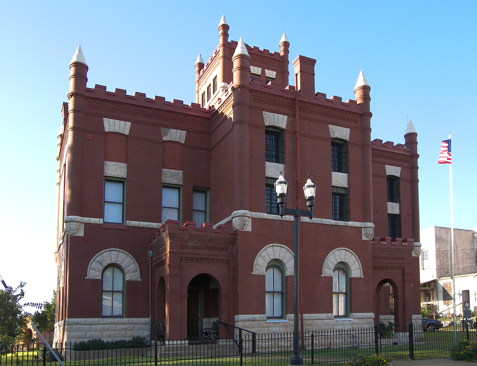 The old Austin County Jail in Bellville, Texas, United States. Fashioned in the Romanesque Revival style by Pauly Jail Building Company of St. Louis, it was constructed by F. B. and W. S. Hull Builders of Dallas in 1896. The building was designated a Recorded Texas Historic Landmark in 1976 and listed on the National Register of Historic Places on November 12, 1980. The building is now the Austin County Jail Museum.